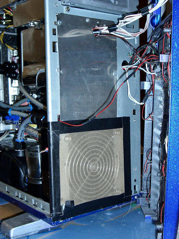 An improvisational dust filter for a radiator of a watercooled PC